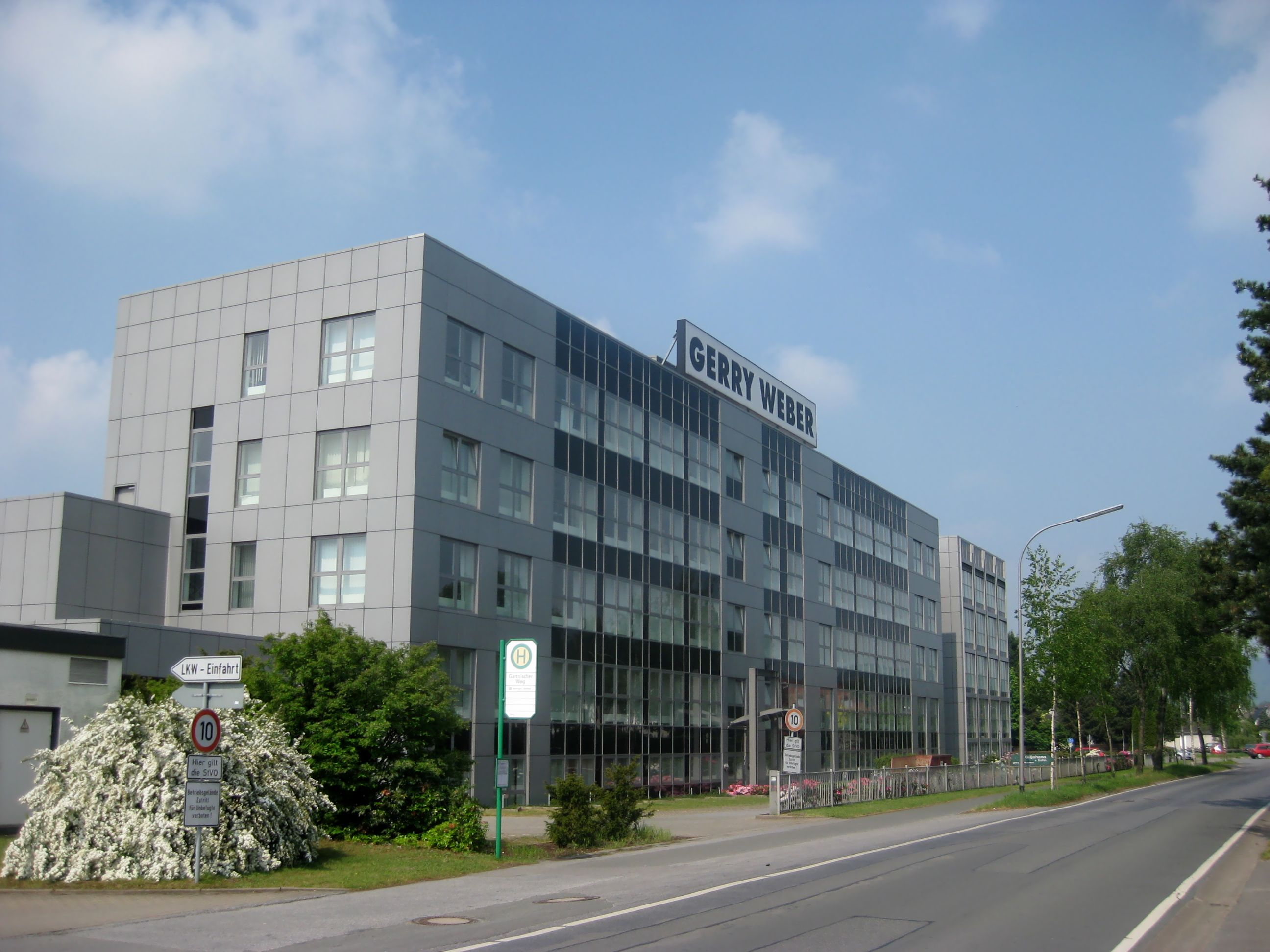 Halle (Westf.) - Headquarters of Gerry Weber Gerry Weber International AG